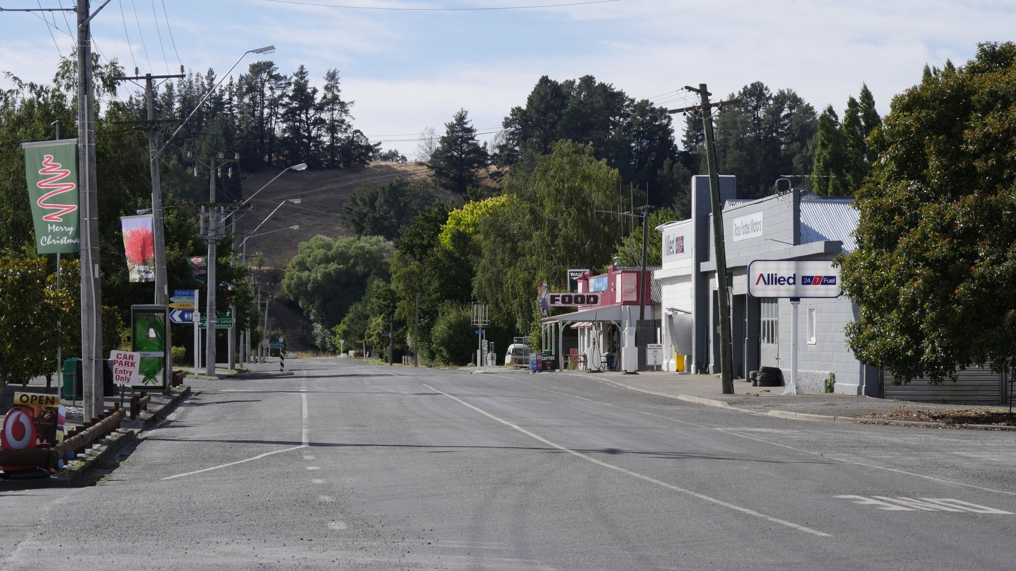 Lyndon Street, Waiau, Hurunui District, Canterbury Region, South Island, New Zealand